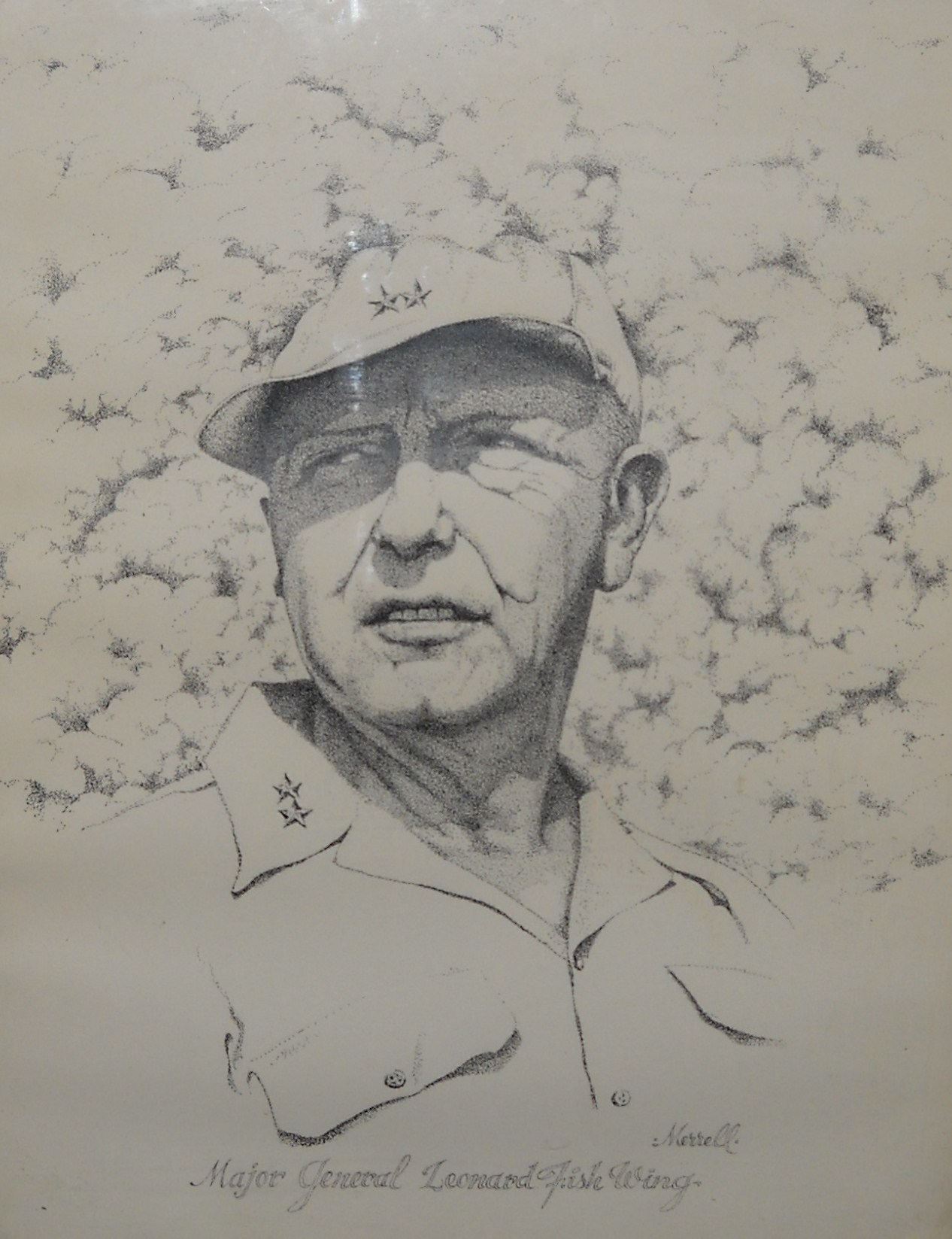 Drawing of Major General Leonard Fish Wing, commander of US 43rd Infantry Division in World War II